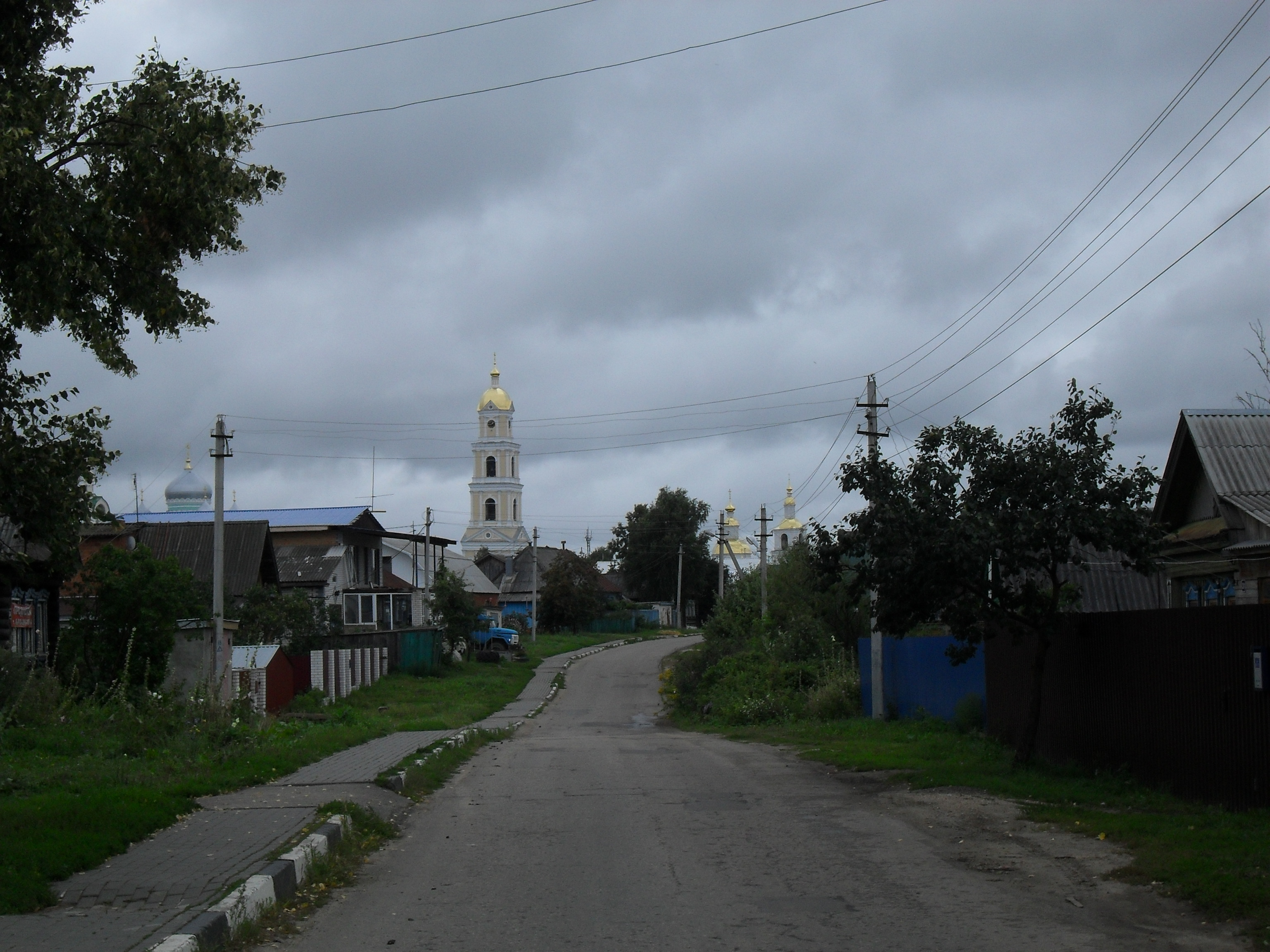 Diveyevo overview, Truda street